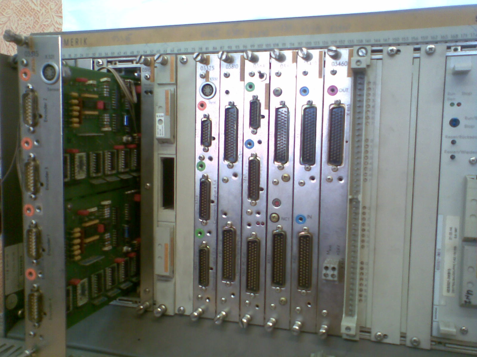 CNC Siemens Sinumeric